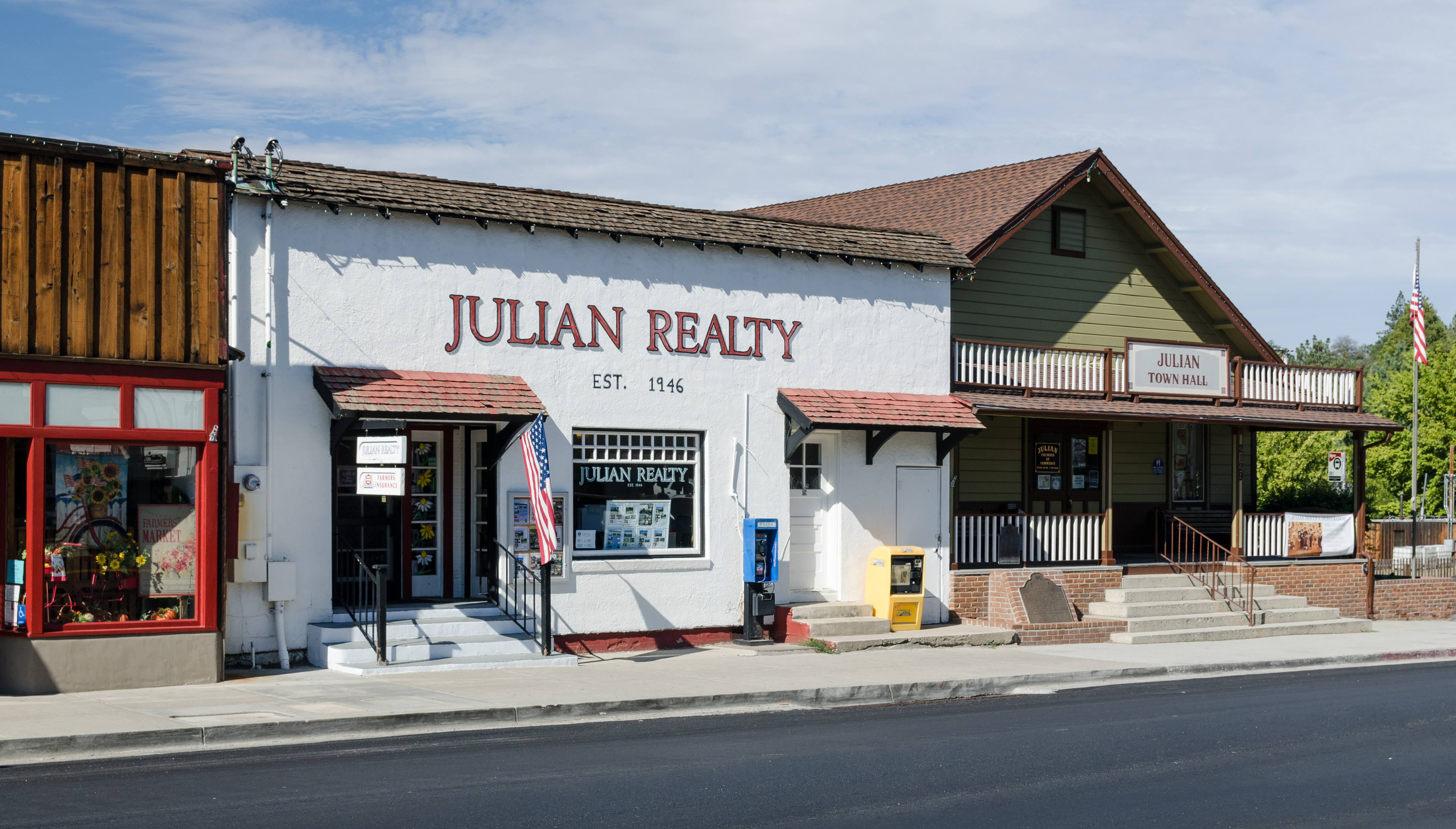 Town Julian in California